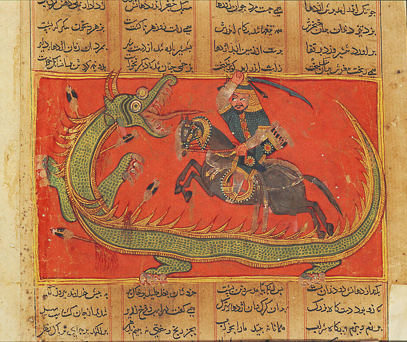 Garshasp slays the horned dragon Azi-Sruwar. Shahnama, Sultanate of Delhi, 1450 Master of the Jainesque Shahnama. Culture: India, possibly Malwa.